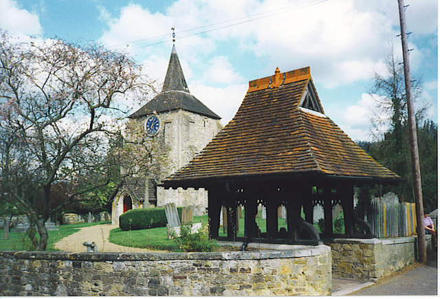 Lychgate, Mickleham. Lychgates were used for sheltering coffins.